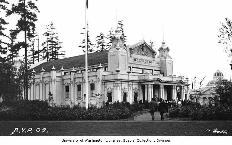 Beverly Bennett Dobbs was born in 1868 near Marshall, Missouri. In 1888 Dobbs moved to Bellingham, Washington and operated a photography studio there for 12 years. In 1900 Dobbs moved to Nome, Alaska and continued to work as a photographer capturing images of Nome, the Seward Peninsula and Inuit people. In 1909, Dobbs started the Dobbs Alaska Moving Picture Co. and began making films about the Gold Rush. By 1914, Dobbs had moved back to Seattle and was creating more films through the Dobbs Totem Film Company which he ran until his death in 1937. Caption on image: A.Y.P. 09. Dobbs. PH Coll 755.8 Subjects (LCTGM): Street lights--Washington (State)--Seattle; Flags Subjects (LCSH): Flagpoles--washington (State)--Seattle; Benches--Washington (State)--Seattle; Alaska-Yukon-Pacific Exposition (1909 : Seattle, Wash.)